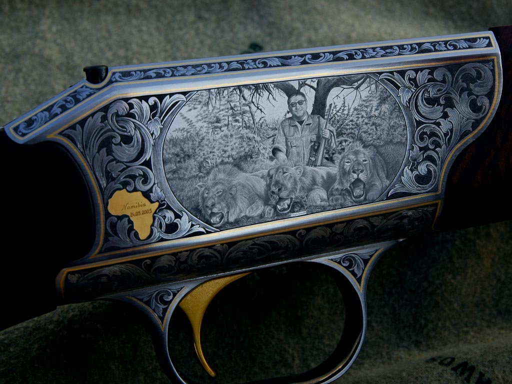 Engraving in bulino technique